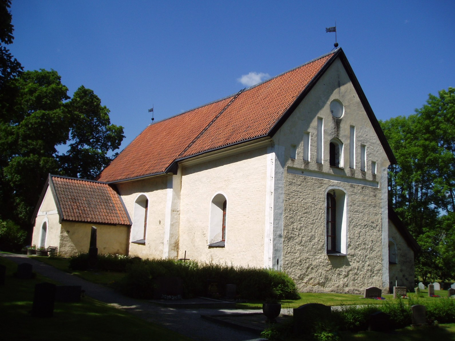 Håbo-Tibble kyrka, church in Uppland, sweden